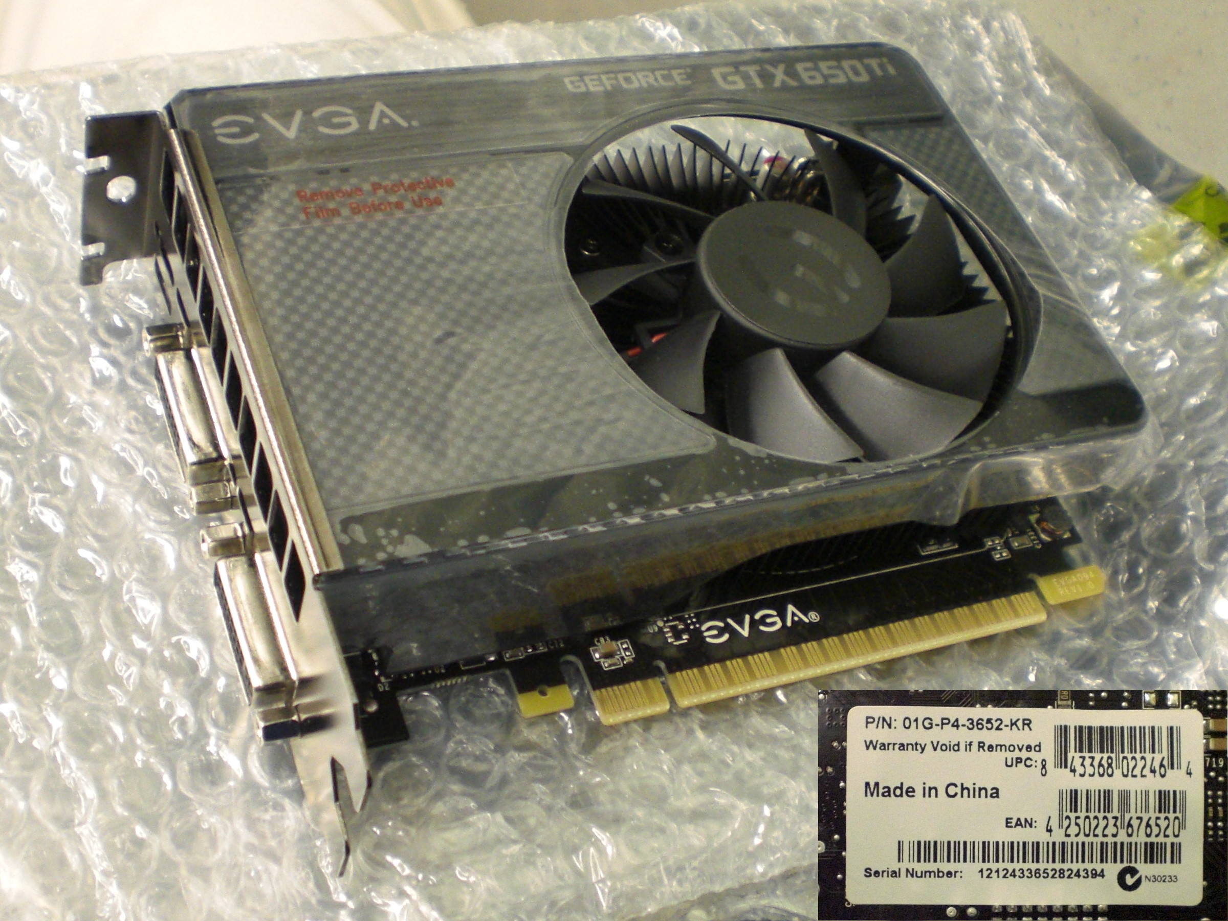 EVGA video card "EVGA GeForce GTX 650 Ti SSC" (01G-P4-3652-KR) with protective film.